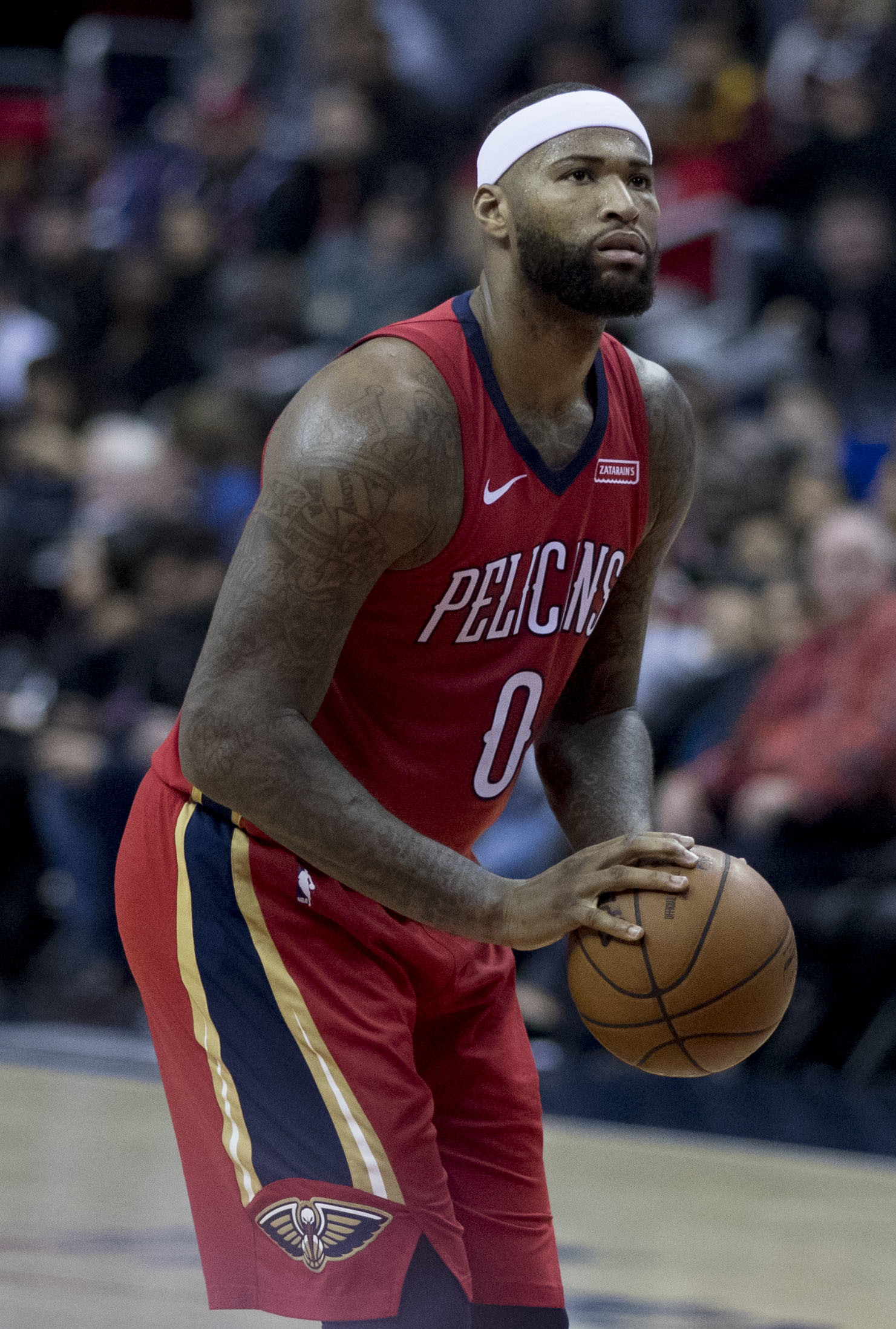 DeMarcus Cousins, Pelicans at Wizards 12/19/17